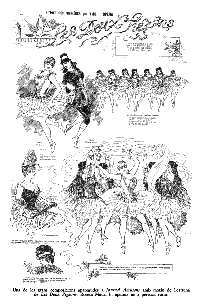 Sketches of the opera Les Deux Pigeons" that appeared on a page of the Paris Journal Amusant